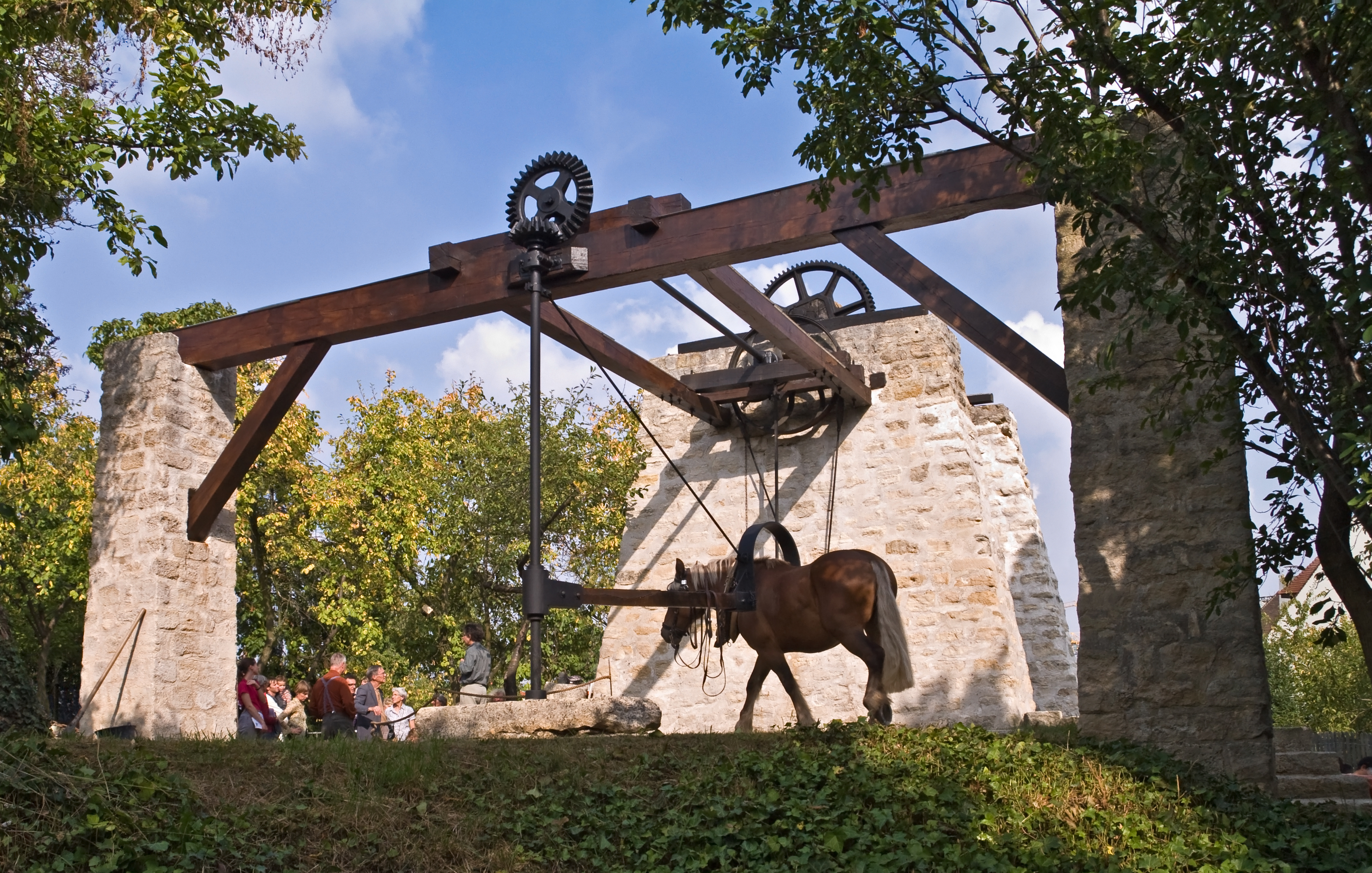 Châtillon (Hauts-de-Seine, France) - The restored horse-drawn winch of the Auboin underground limestone quarry (19th-century), in demonstration during the European Heritage Days 2009.